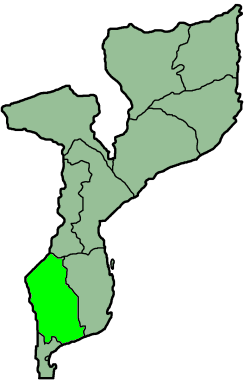 Credit: Sascha Noyes, 2004 Info: Map of the Gaza Province in Mozambique; Created with the GIMP